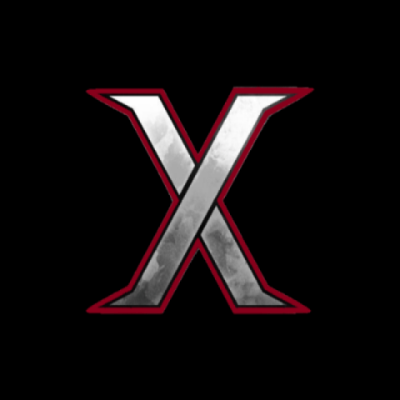 Xplosive E Sports Team Logo